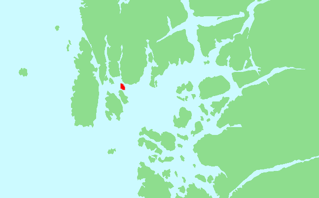 Locator map of Ogn, Rogaland, Norway